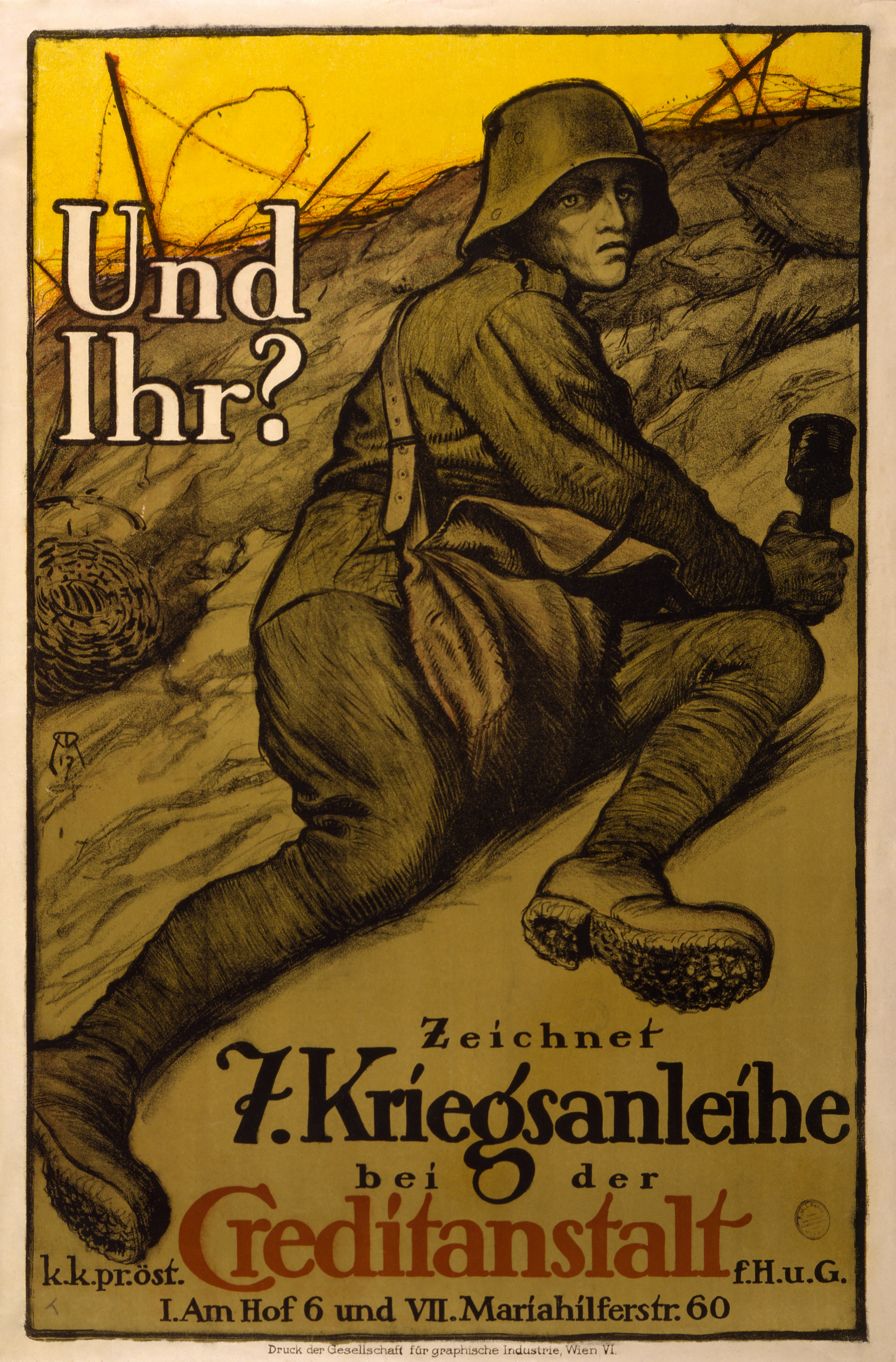 Poster shows a soldier in a trench holding a grenade. Text: And you? Subscribe to the 7th War Loan at the k.k. pr. Öst. Creditanstalt f.H.u.G.. Published by Wien : Gesellschaft für Graphische Industrie. Poster measures 95 by 63 centimetres (37 in × 25 in).